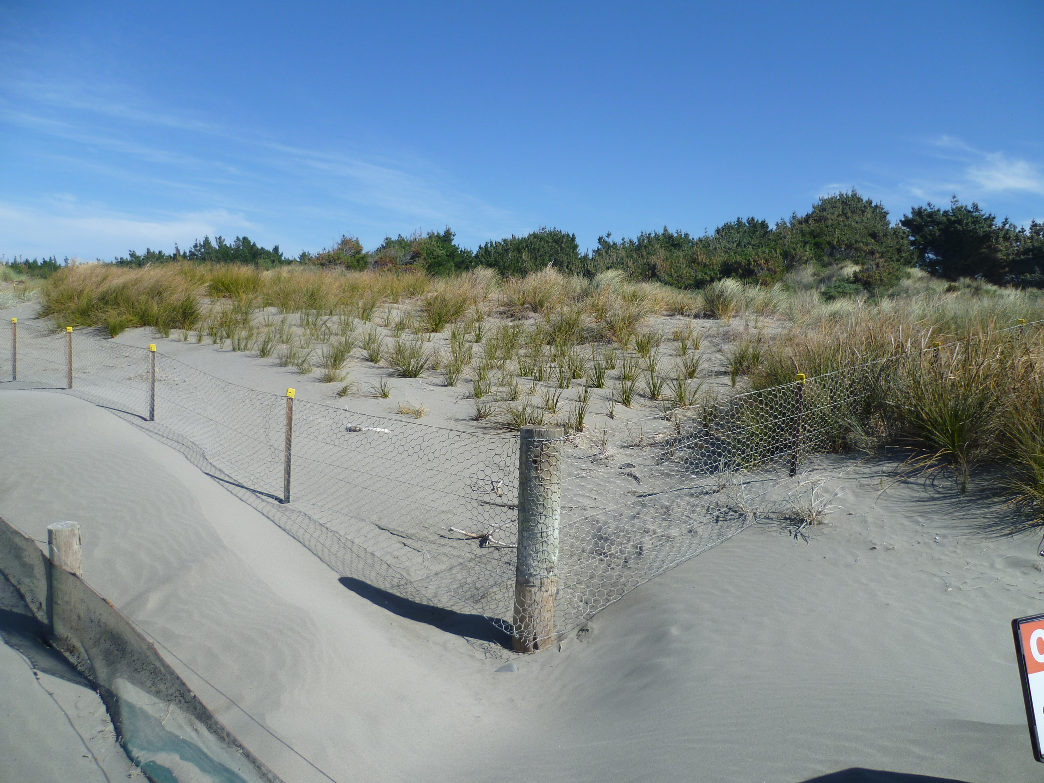 Sand dunes at Spencer Park, New Zealand